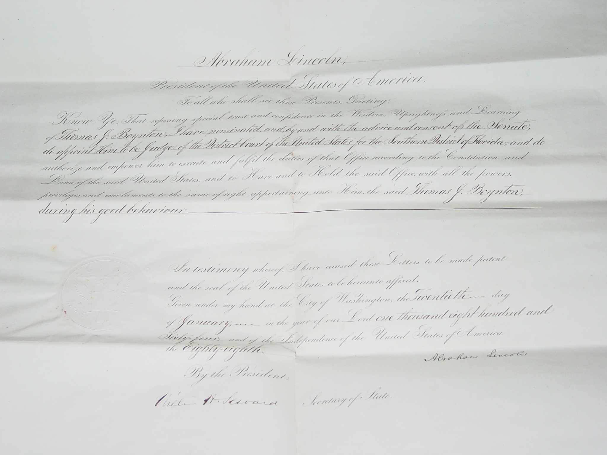 A photograph of the front of the judgeship appointment of Thomas Jefferson Boynton, dated 20 January 1864, signed by William Seward (Secretary of State) and Abraham Lincoln. The oath for the office is written out longhand on the back of the appointment document and signed by Thomas Jefferson Boynton. The envelope that contained the document also still exists.